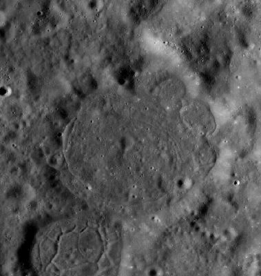 Tamm lunar crater - LROC image WAC No. M118892250ME.